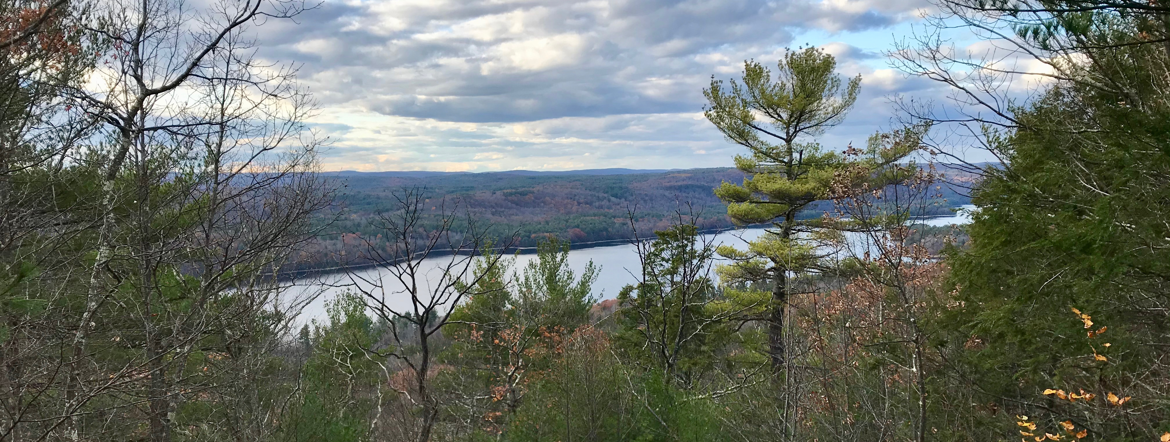 Barkhamsted Reservoir 10 degree view from a south eastern high point on the Tunxis Trail between East Hartland Road (CT 219) and Ratlum Road in Barkhamsted Connecticut.